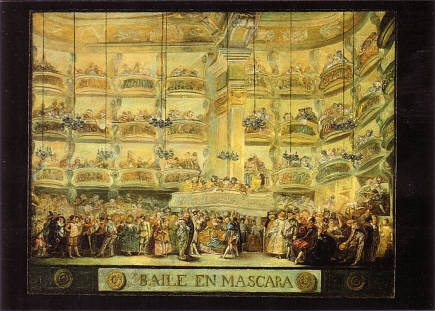 Masked Ball for Don Carlos (the later King Charles IV.) and his bride Maria Luisa of Parma, 1767